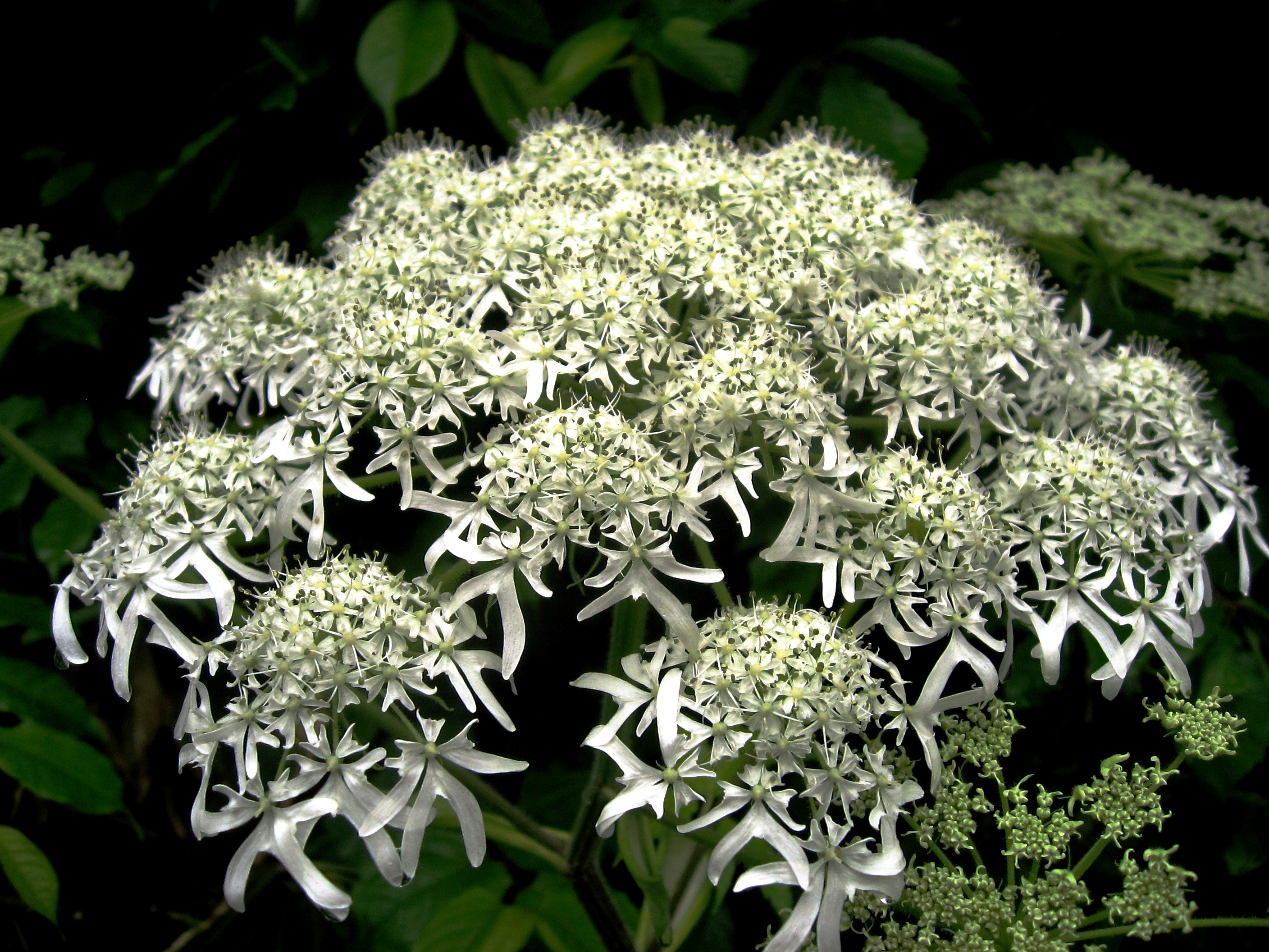 Heracleum lanatum, Aizu area, Fukushima pref., Japan